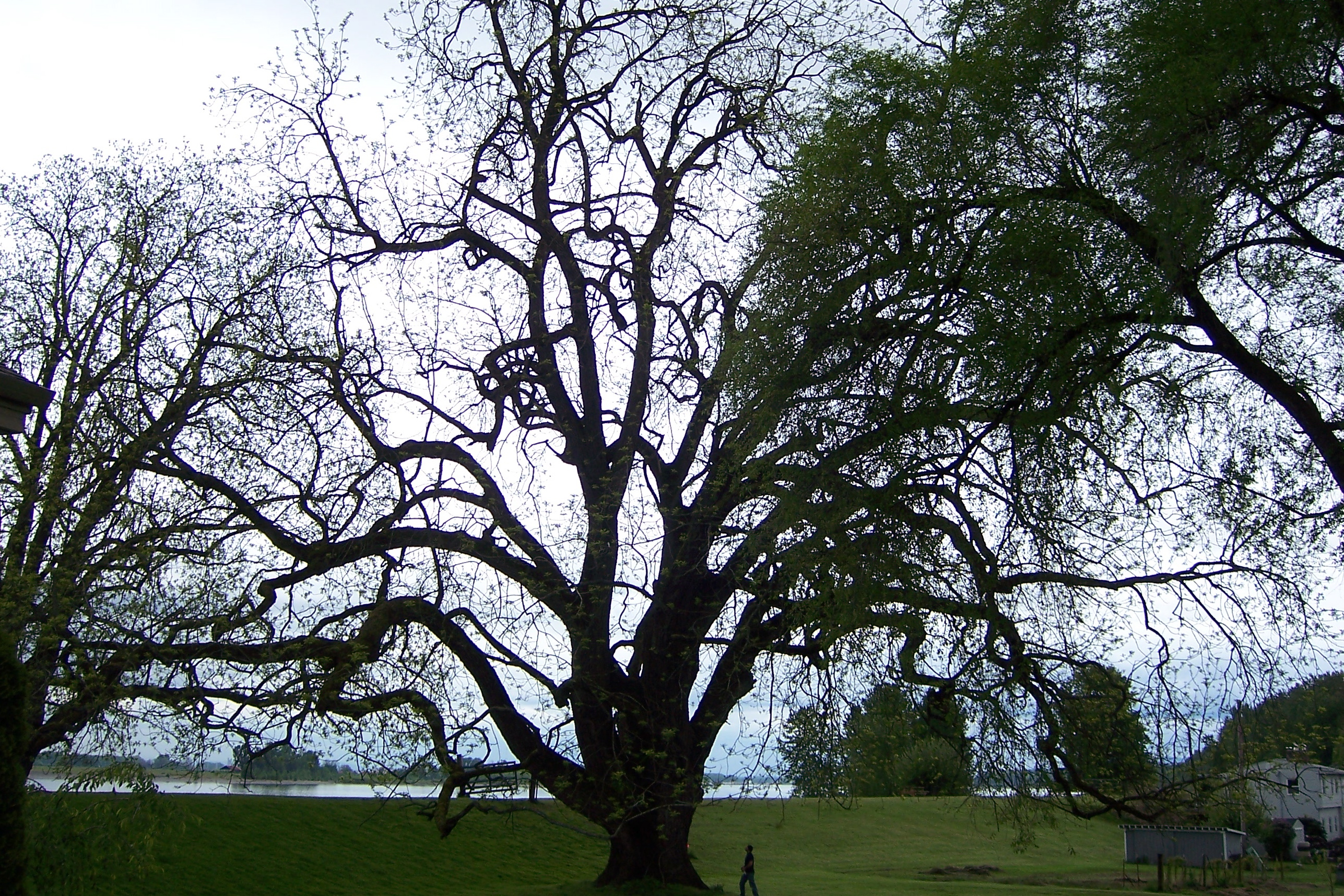 The National Champion Black Walnut (Juglans nigra) on Sauvie Island, Oregon.